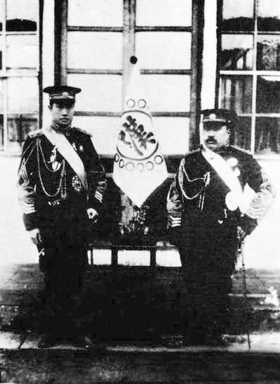 Yin Changheng (left) and Luo Lun (right)